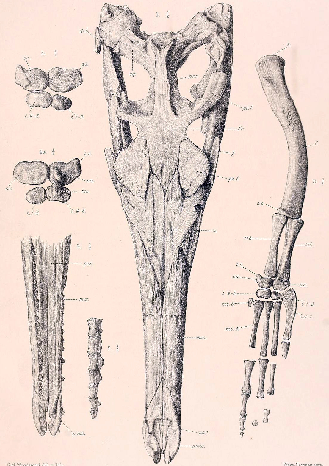 Skull and limb of Gracilineustes leedsi (formerly Metriorhynchus laeve).